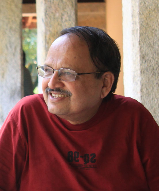 K V Narayana's bust